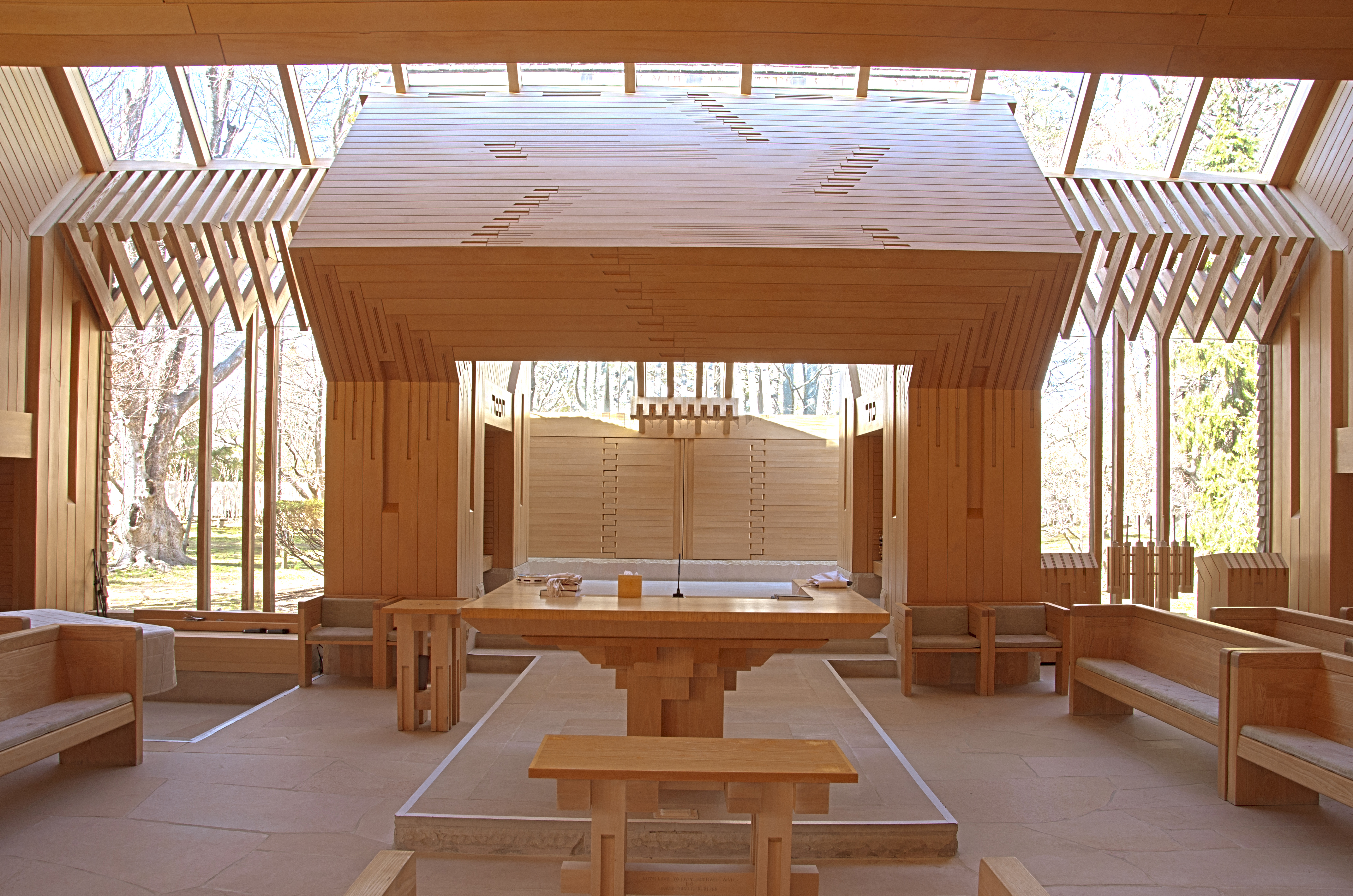 A view of the inside of the Gates of the Grove Sanctuary at the Jewish Center of the Hamptons